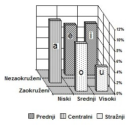 Frequency of Serbo-Croatian vowels